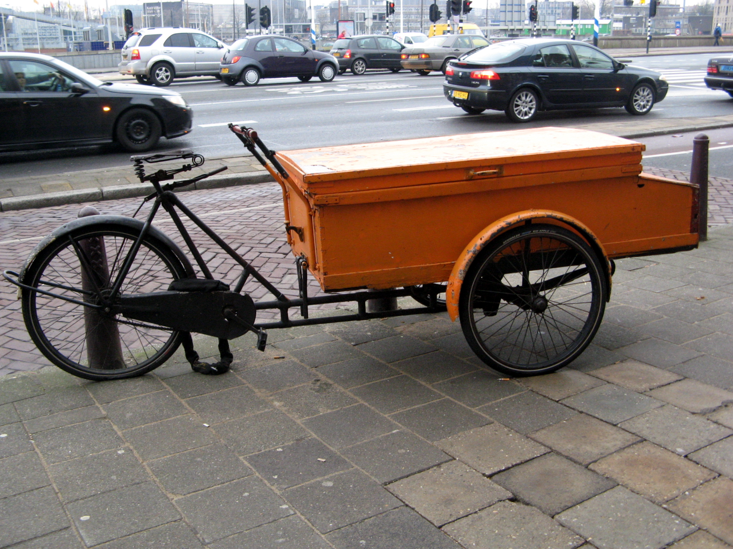 Work bike in Amsterdam